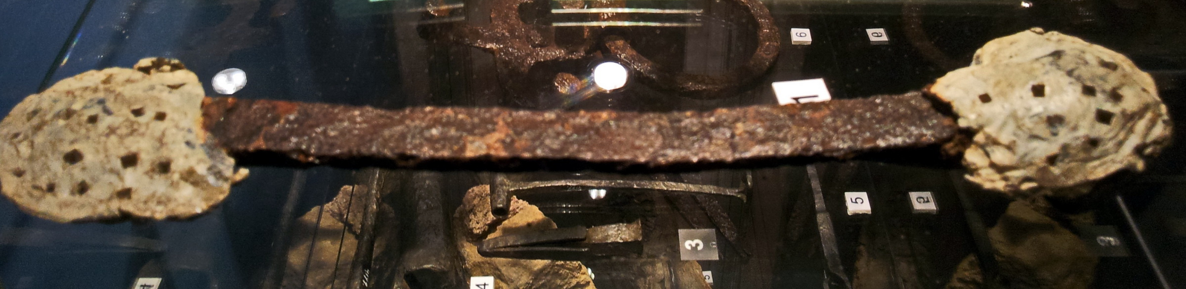 Building material (iron rod), excavated at the site of a former Roman watch tower in Valkenburg-Goudsberg, now in the permanent archaeological collection of the Thermenmuseum, Heerlen, Limburg, the Netherlands.